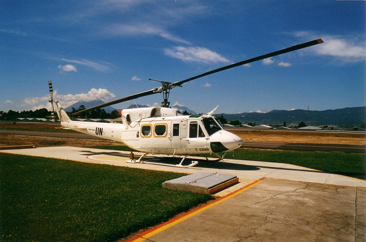 I took this photo of Bell 212 C-GRNR of Alpine Helicopters on UN peacekeeping duty at L'Aurora Airport, Guatemala City, 1998.